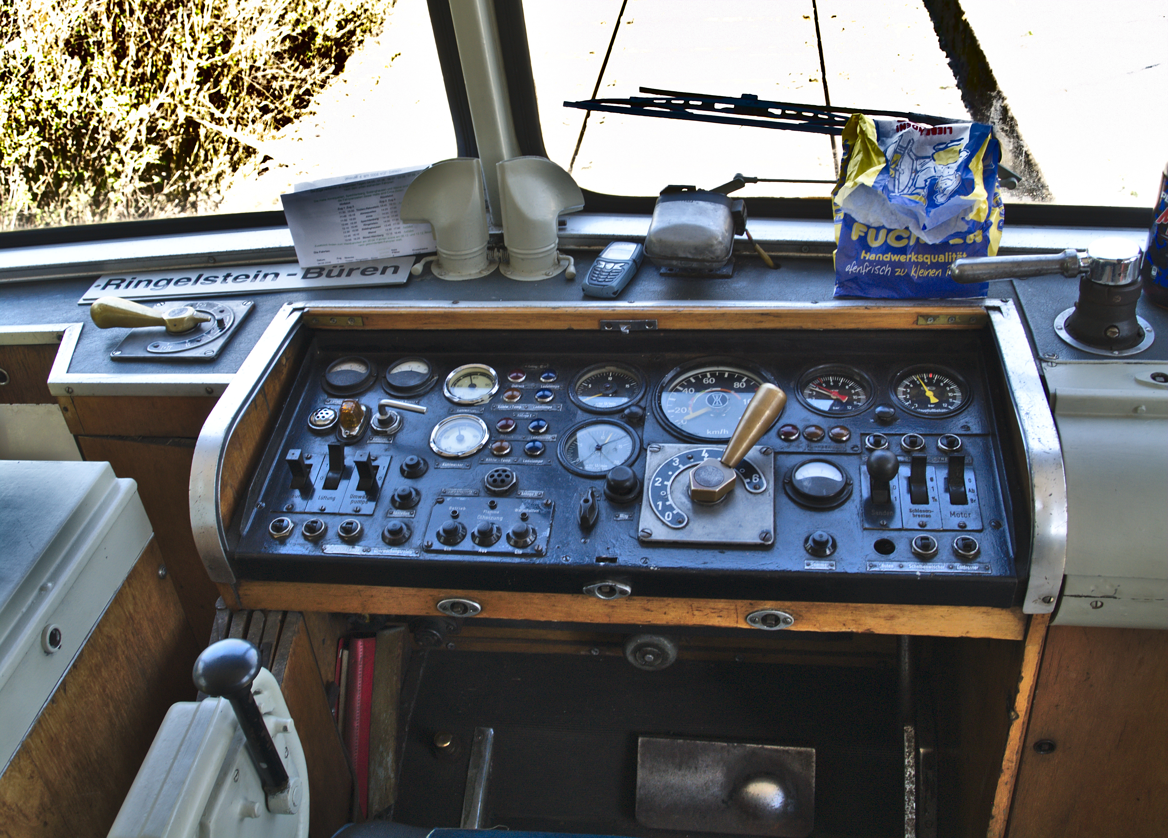 Driver's cab of the railcar #798 766-2. The big lever in the middle is used for operating the gear shift. Just above the lever is the speedometer. The lever on the extreme upper right is the brake lever, that on the left of the driver's seat the acceleration lever.